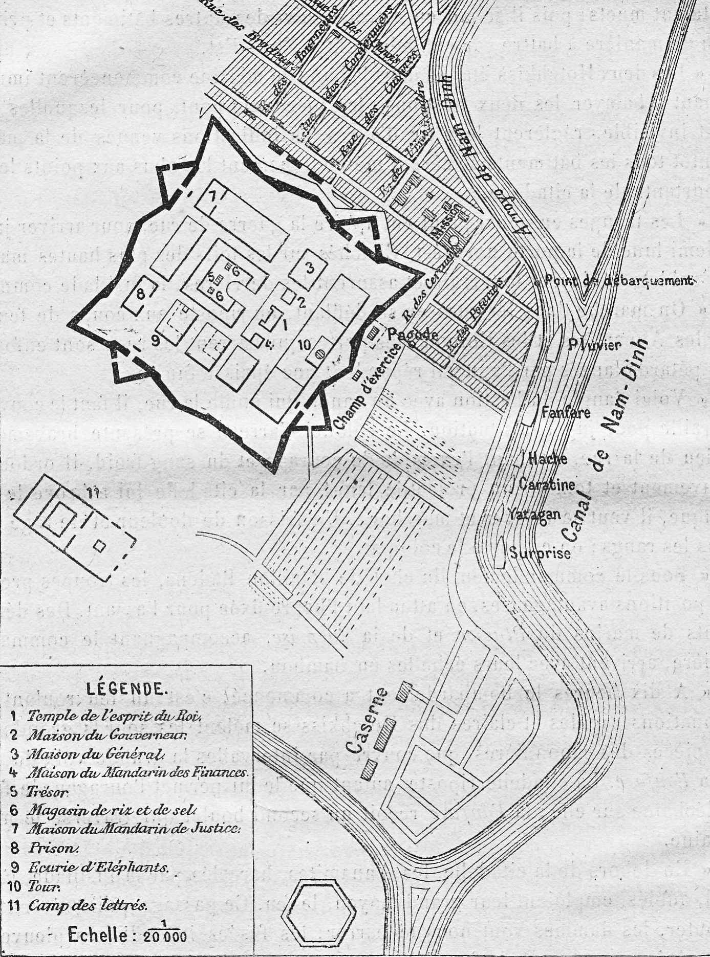 Plan of the citadel of Nam Dinh, March 1883